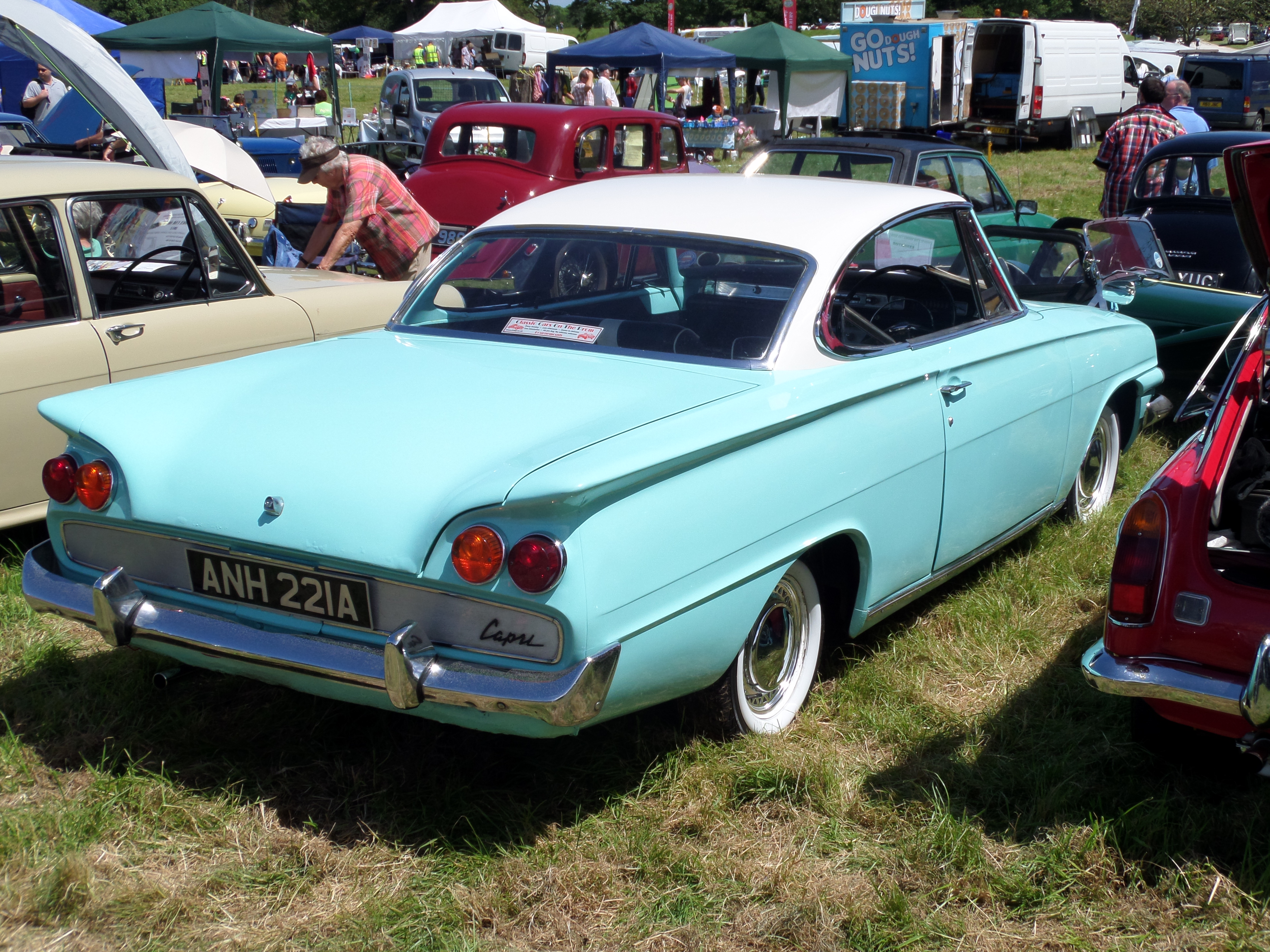 Spotted at the Wessex Car Show, Lulworth Castle, Dorset on Sunday 8th June 2014